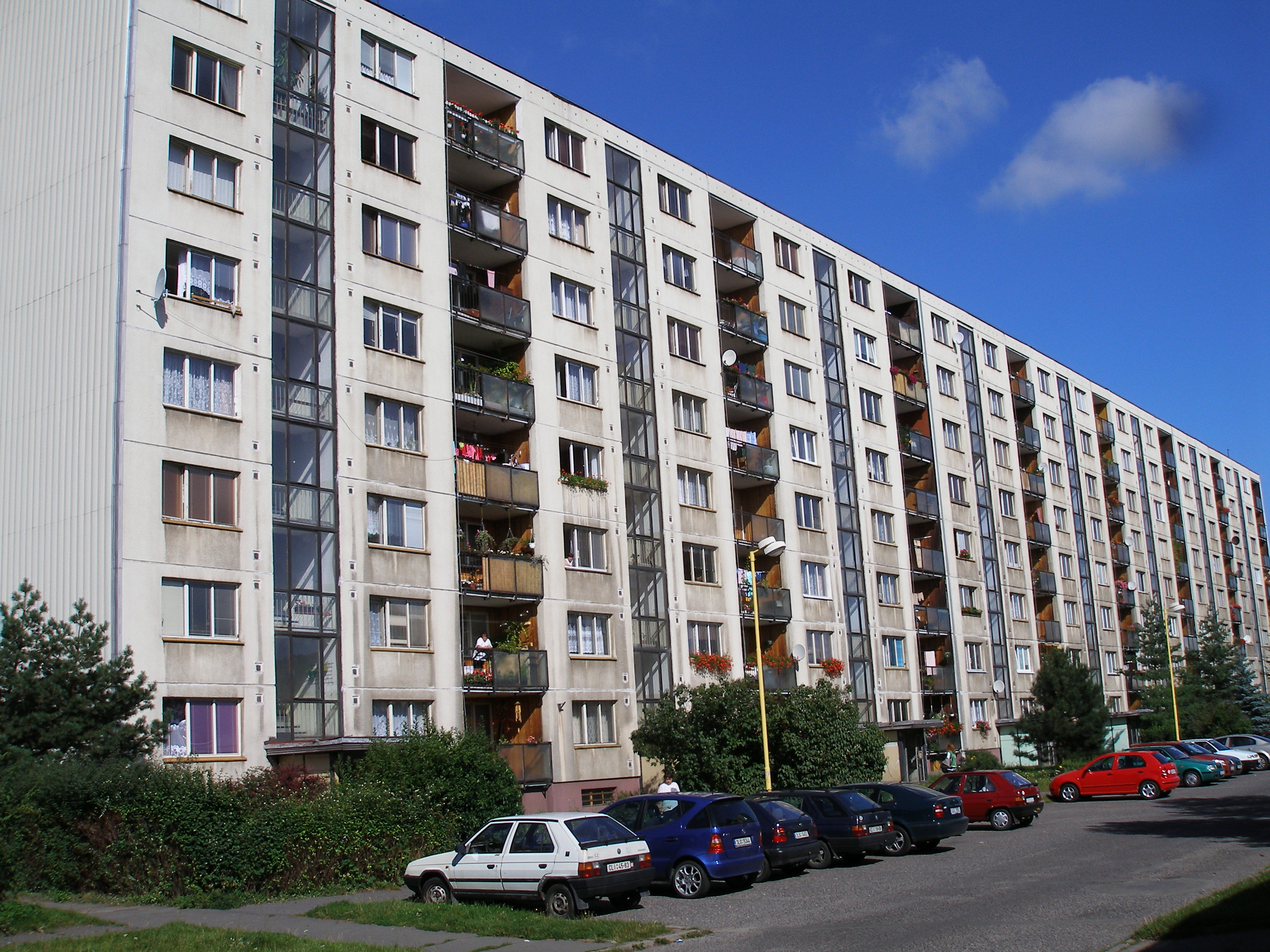 A concrete house in Mimoň, Czechia